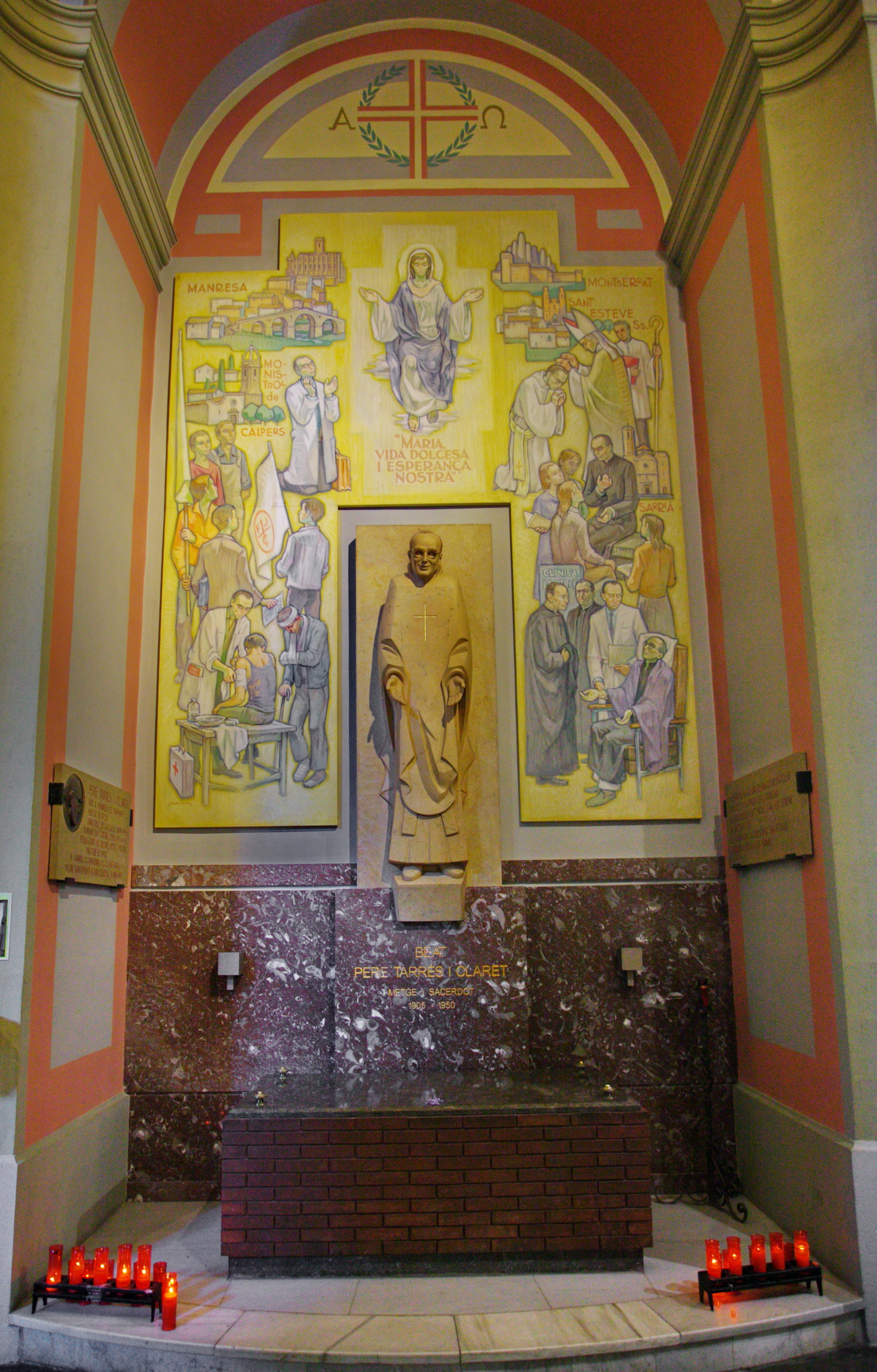 sepulchre of Pere Tarrés at Sarrià church, Barcelona